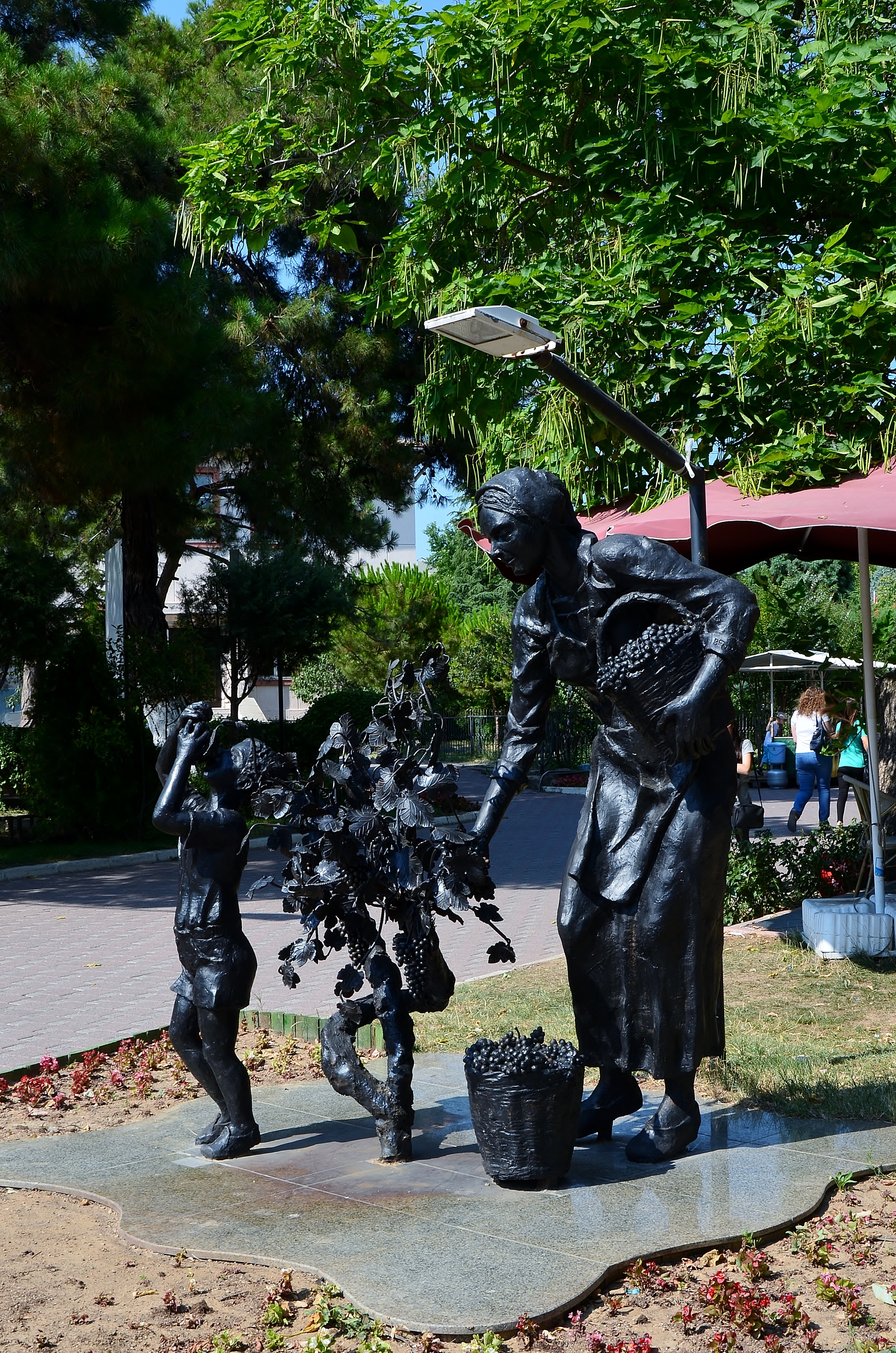 Statue of wine grape harvest in Kırklareli, Turkey